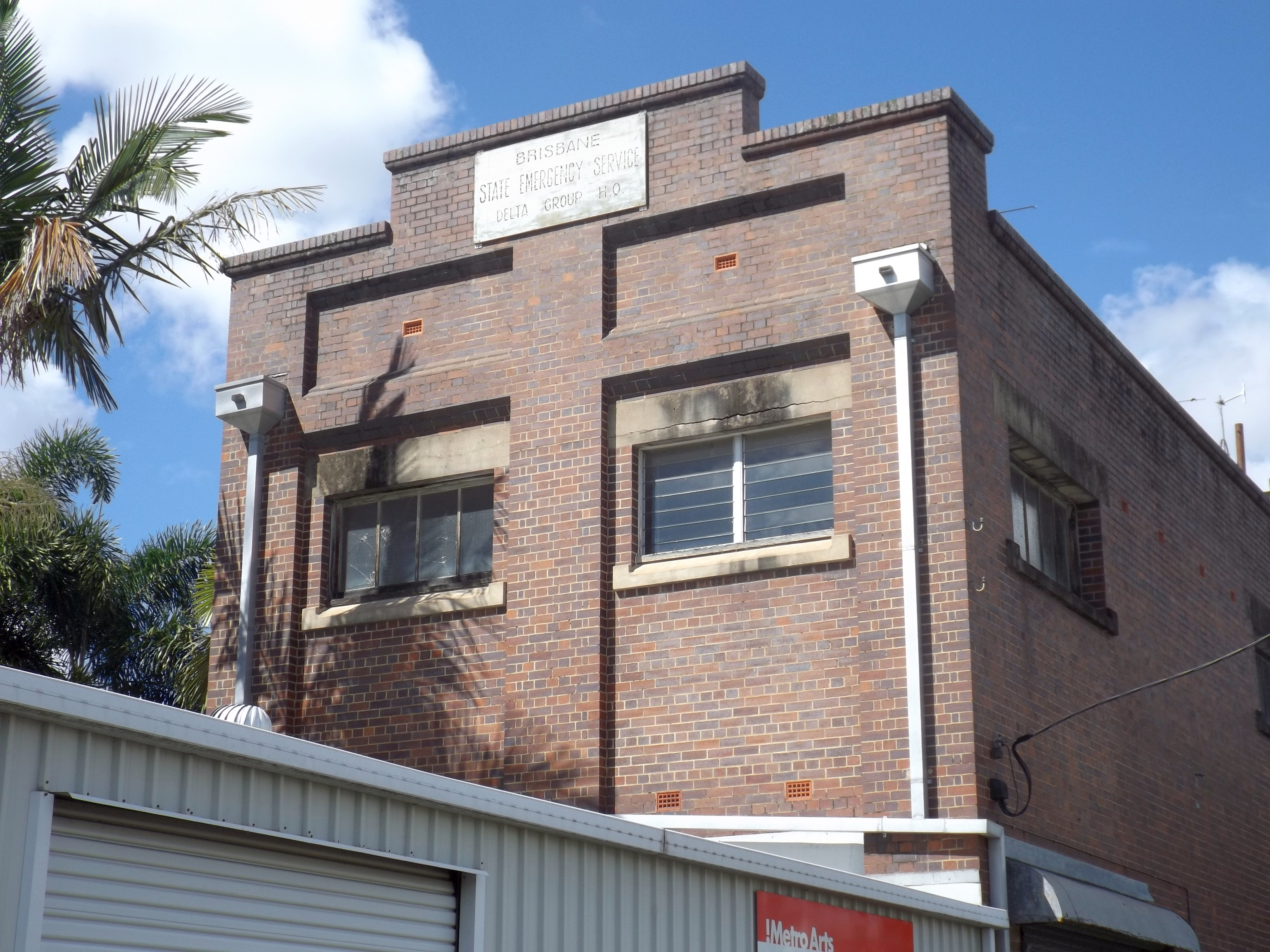 Photo of Brisbane City Council Tramway Substation No 9 at Norman Park, Brisbane, Queensland, Australia.